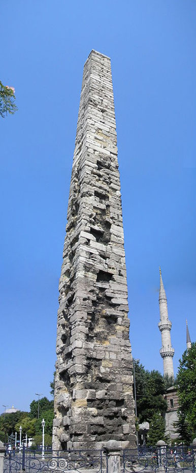 So-called Walled Obelisk in the Hippodrome of Constantinople.